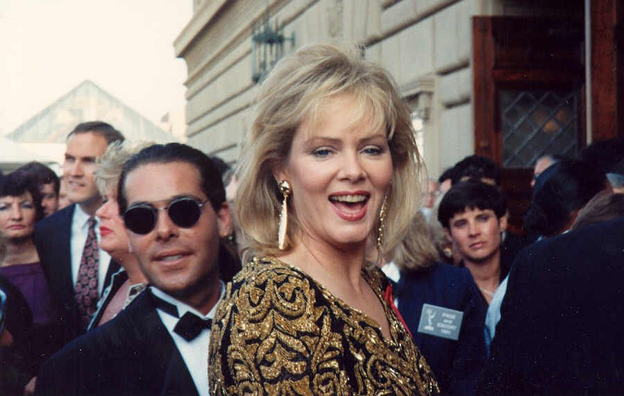 Jean Smart on the red carpet for the 43rd Annual Emmy Awards, 8/25/91 - Permission granted to copy, publish, broadcast or post but please credit "photo by Alan Light" if you can